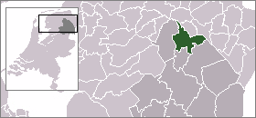 Location map of Dutch municipality in Drenthe. All images of this type by Mtcv have been released in the Public Domain by him